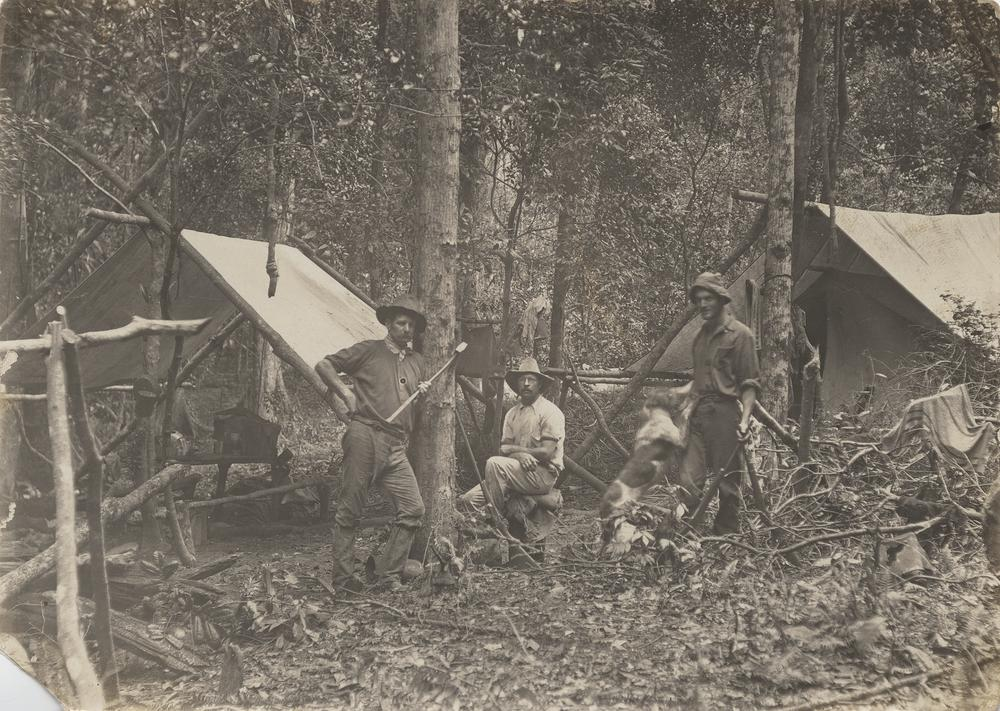 Loggers at their camp in the Bunya Mountains, 1912 Group of three men are pictured outside two tents. They are surrounded by bush.